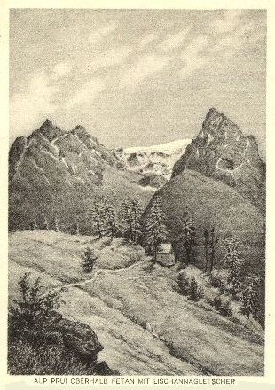 Vadret da Lischana, Grisons, Switzerland. Print. Taken at Prui, above Ftan, Grisons Switzerland.